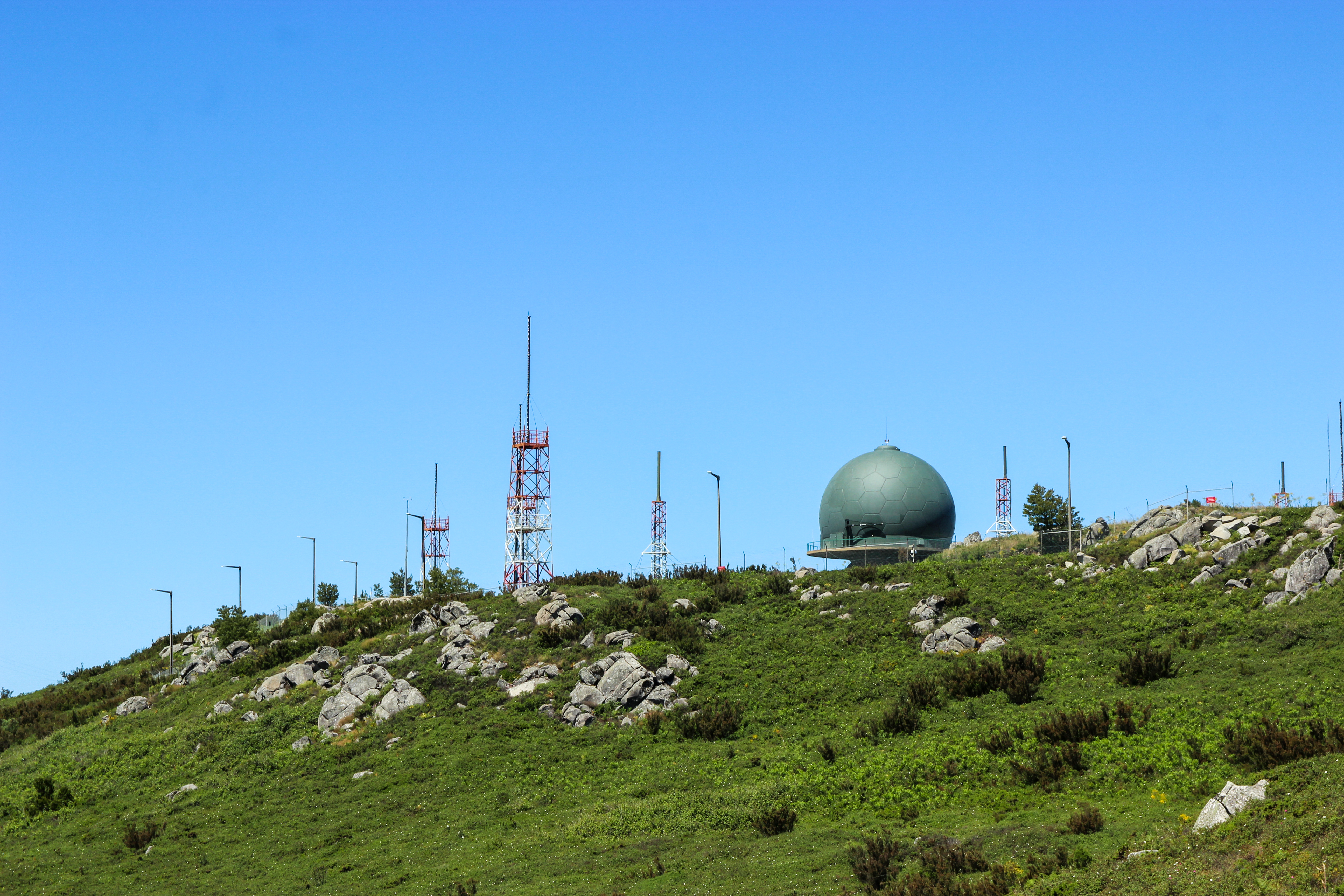 Radar Station N,º 1 (Estação de Radar N.º 1) of the Portuguese Air Force on the mount Fóia, Algarve.